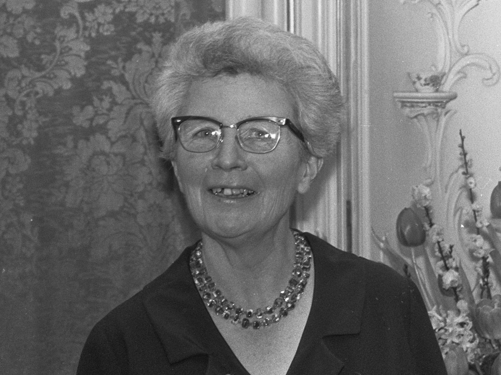 Ida Gerhardt (1905-1997), Dutch poet, during the 1968 ceremony of the Martinus Nijhoff Prize, 26 January 1968